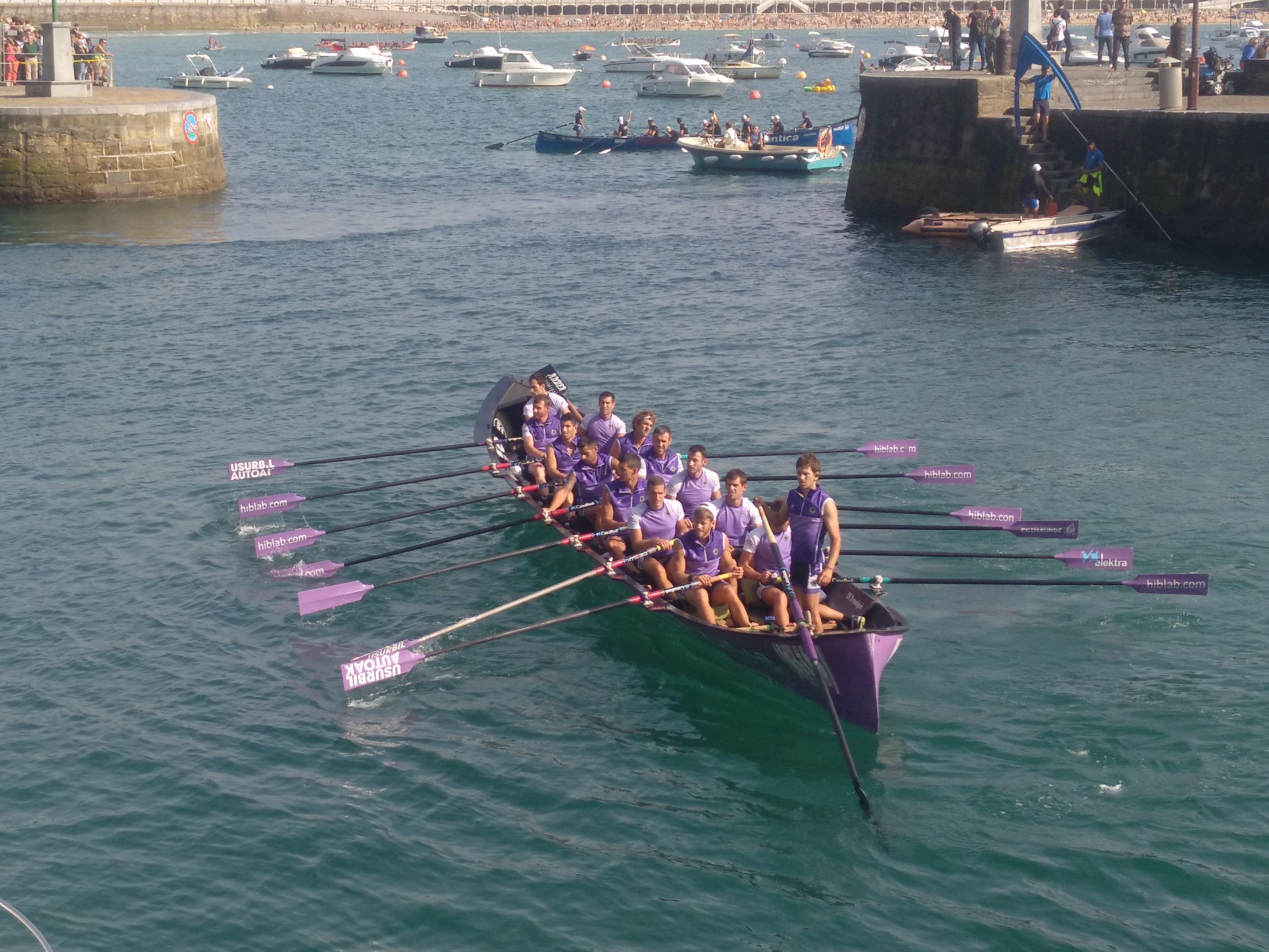 Sanpedrotarra Arraun Elkartea, Flag of La Concha, 2018